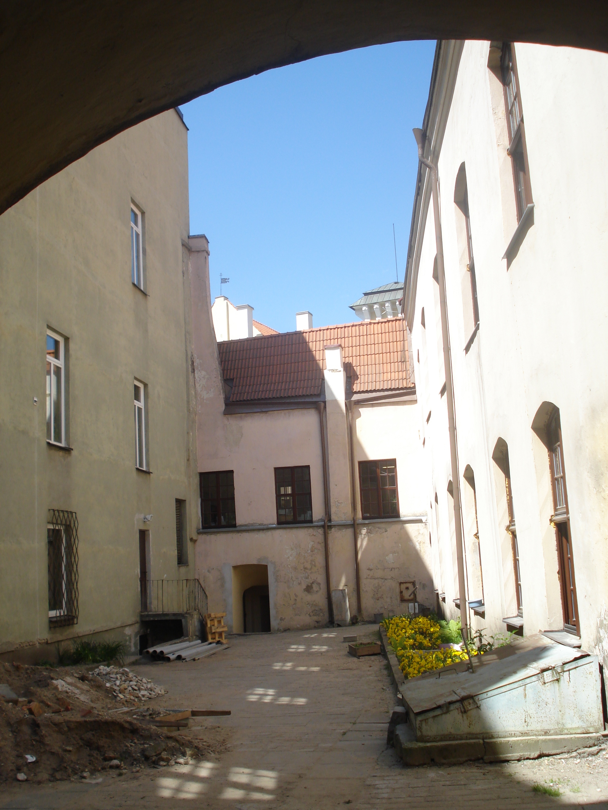 Printing-House Courtyard in the Vilnius University architectural ensemble